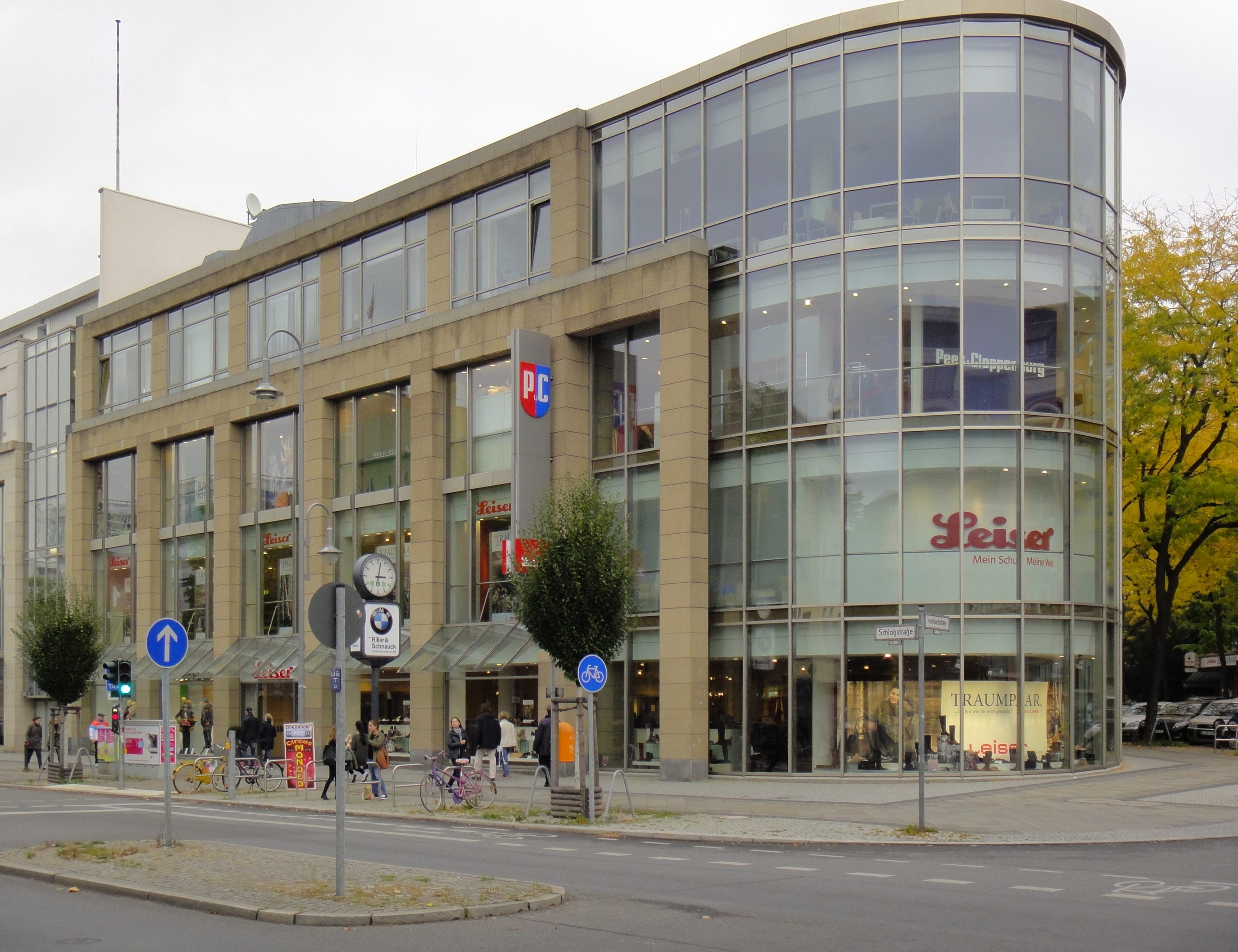 Berlin in winter